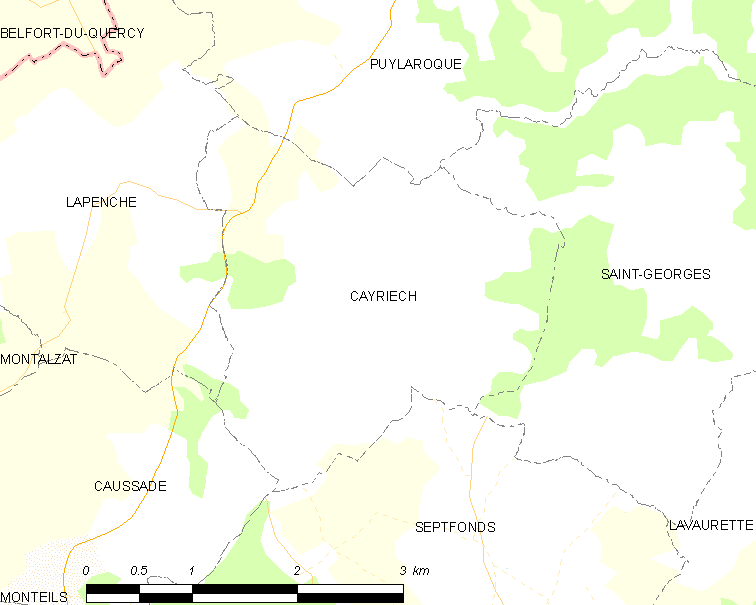 Map of French municipality Cayriech